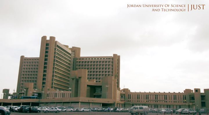 King Abdallah University Hospital